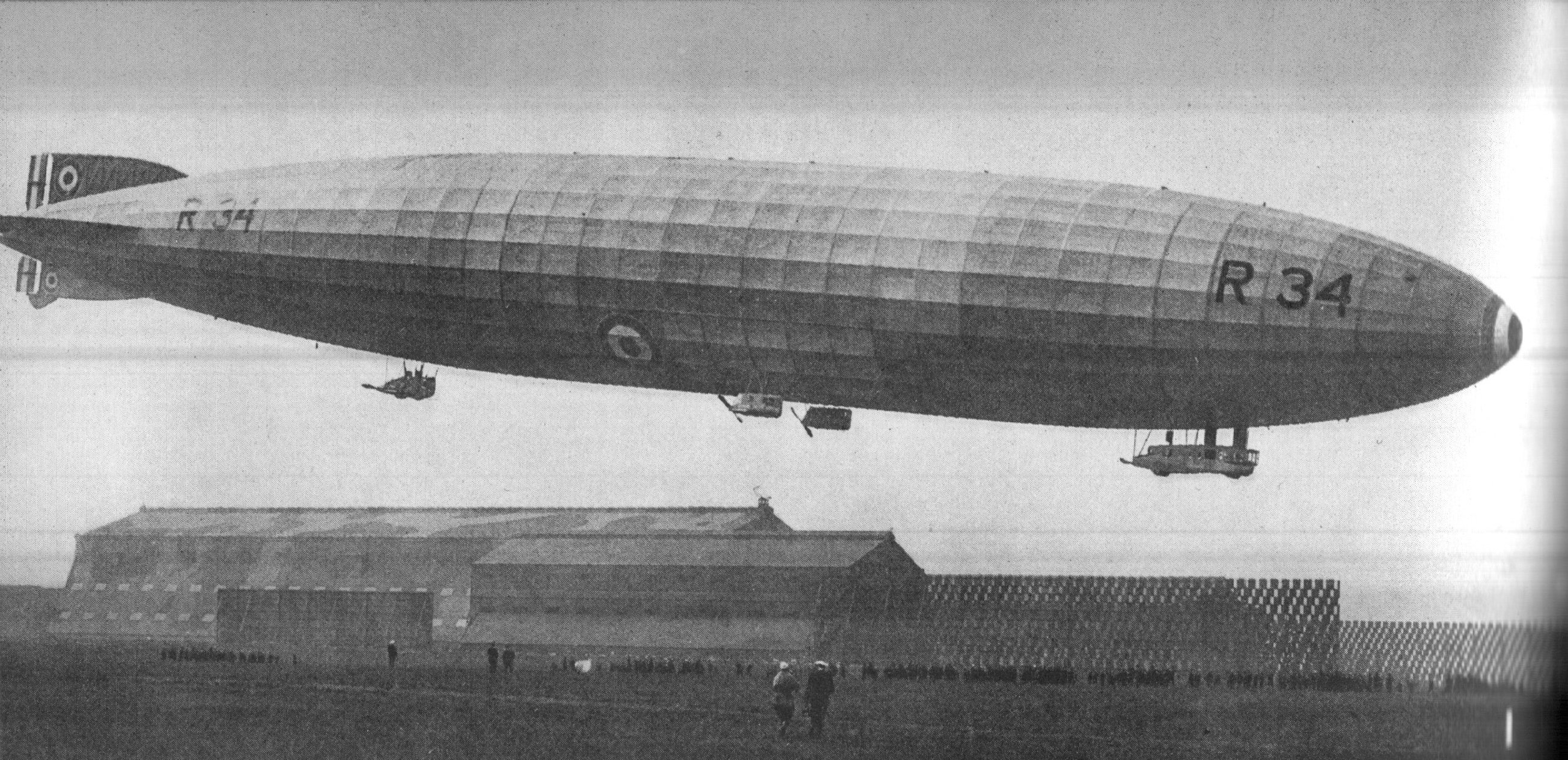 The first airship to fly from Great Britain to the United States, and to make a double crossing of the Atlantic. R34 took three days three hours and three minutes to fly from Long Island to Pulham. Both trips were made in July 1919. Approximate date of photograph: 1919